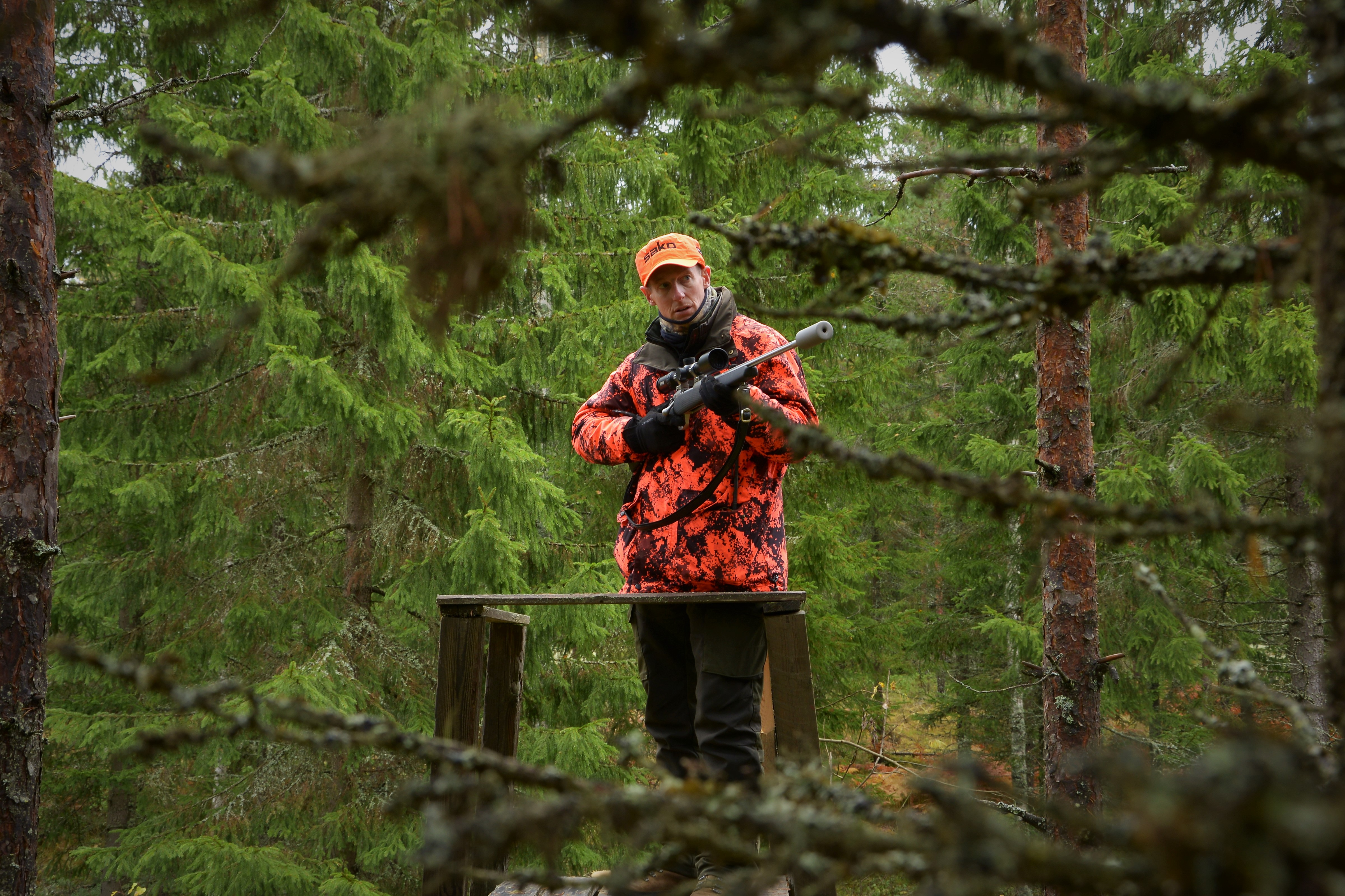 British professional hunter Paul Childerley on a driven deer hunt in Finland, 2017